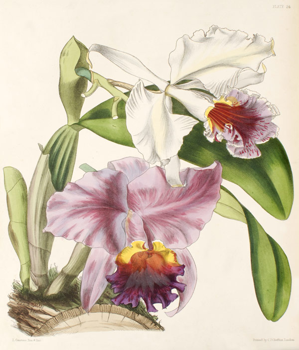 Cattleya labiata Lindl.